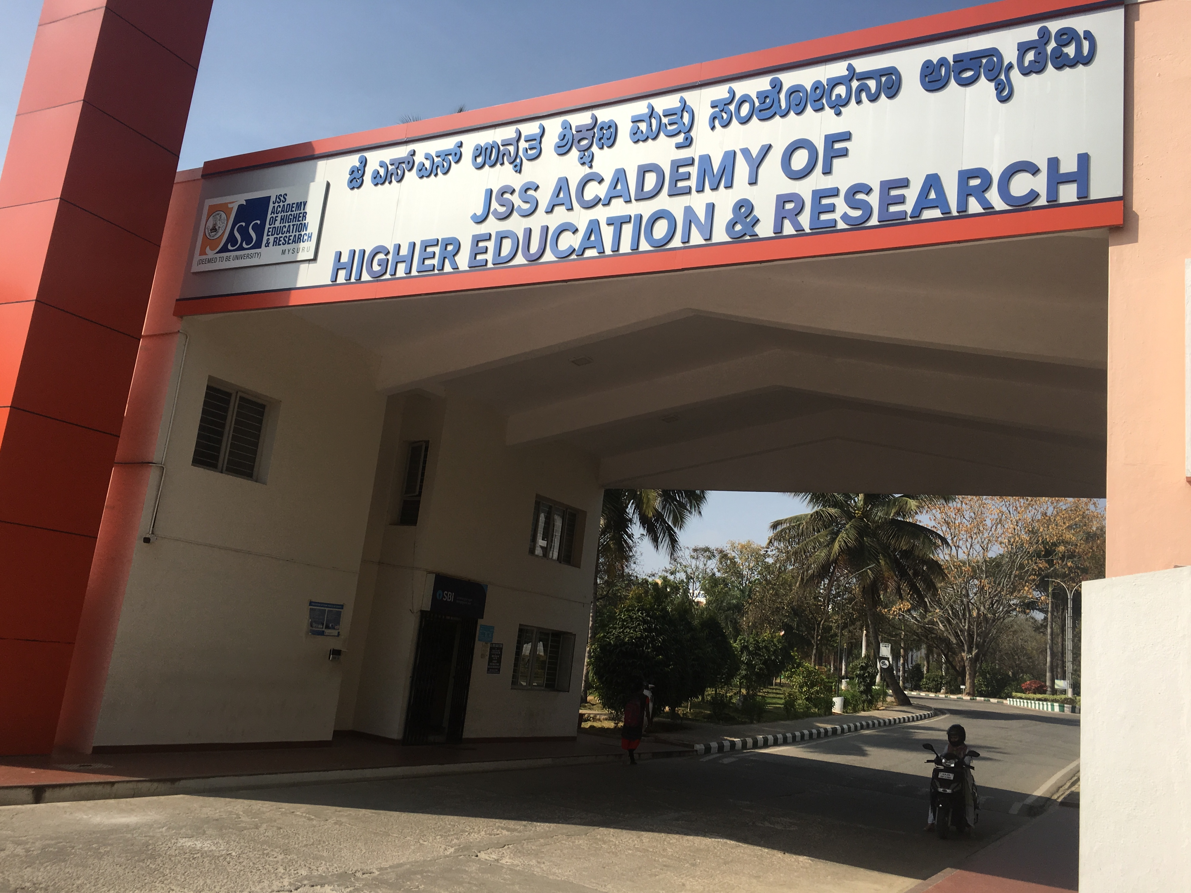 JSS Academy of Higher Education & Research